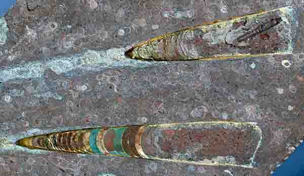 Ooland, Sweden orthoceras Dcwade - collected June 2001